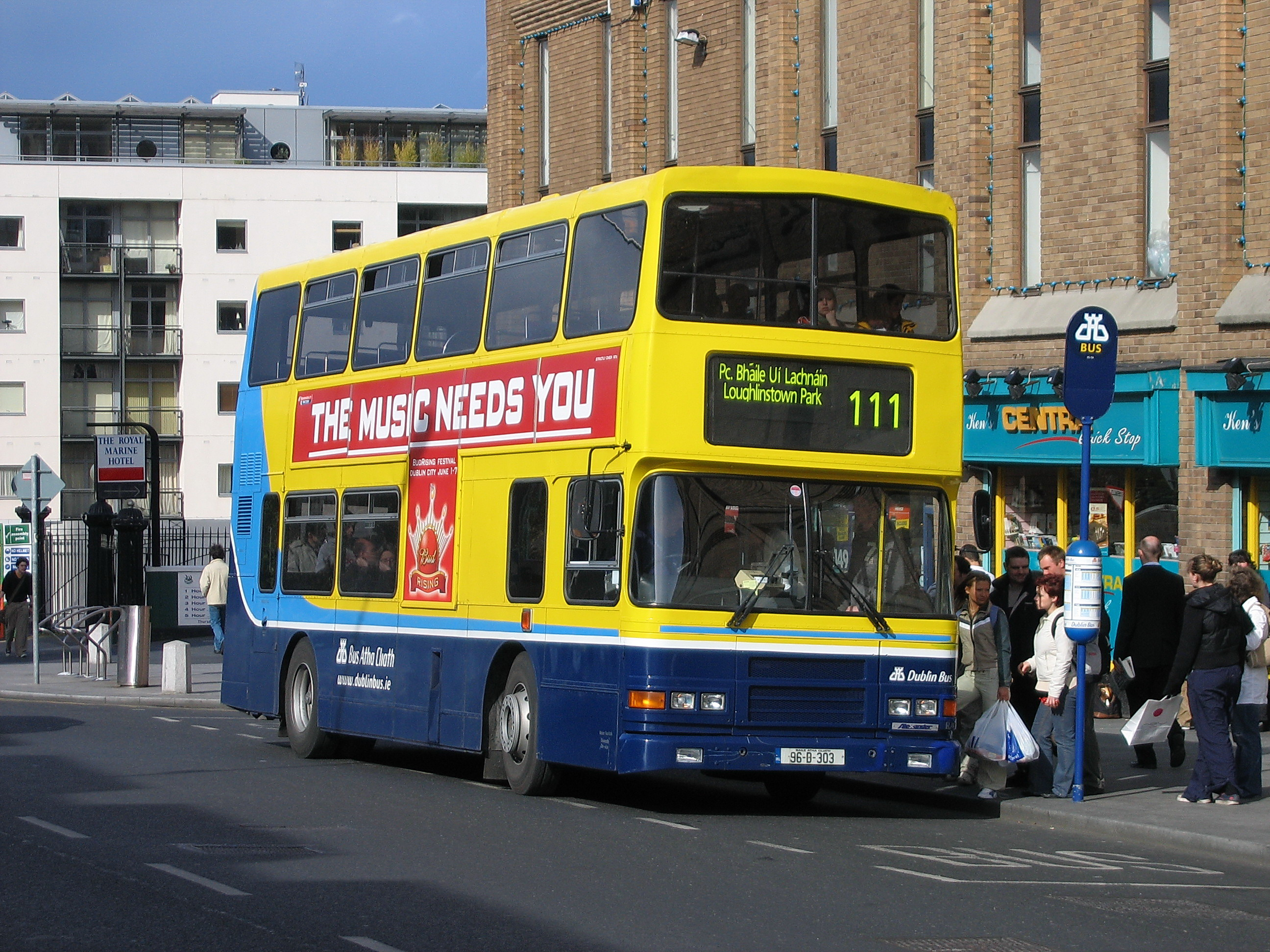 Dublin Bus bus RA303 (reg. 96 D 303), a 1996 RA-class Alexander (Belfast) bodied Volvo Olympian double-decker, pictured on Marine Road in Dún Laoghaire operating route 111. Withdrawn in August 2008, it was exported to the UK to Chalkwell's of Sittingbourne by October 2009, who re-registered it with the UK plate N732 JNO.